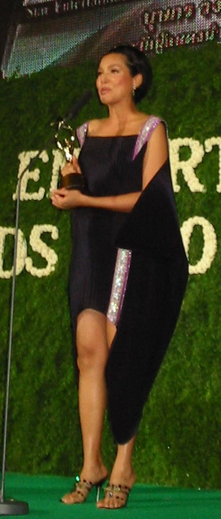 Bussakorn Wongpuapun at Star Entertainment Awards 2007